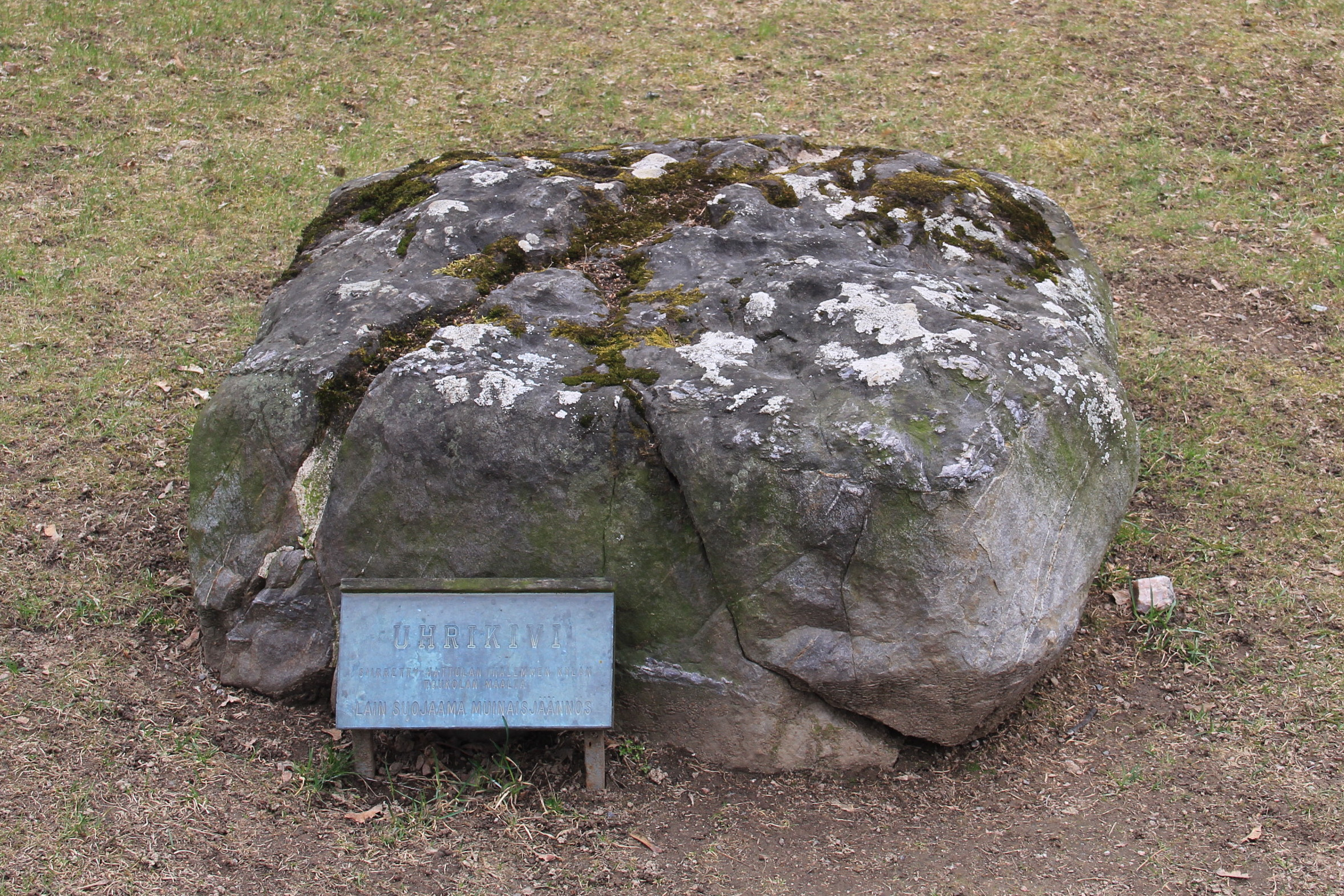 Cup marked stone, Sibelius Park, Hämeenlinna, Finland. - Stone transferred from Toukola estate, Ihalempi, Hattula.